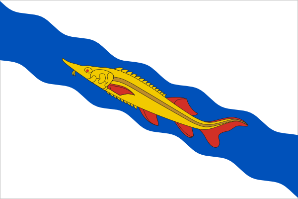 Eisk (Krasnodar krai), flag